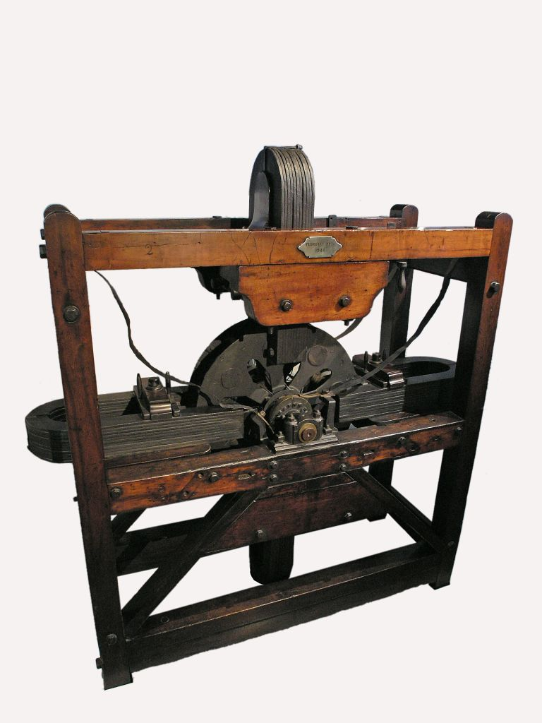 The Woolrich Electrical Generator. Editing undertaken: Unsharp Mask, Shadows/Highlights